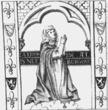 Adelaide of Burgundy (1233–1273)